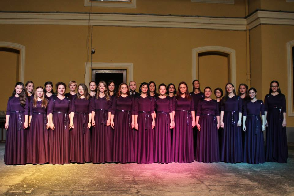 Youth female choir - MKC Concert in Bitola, July 2015